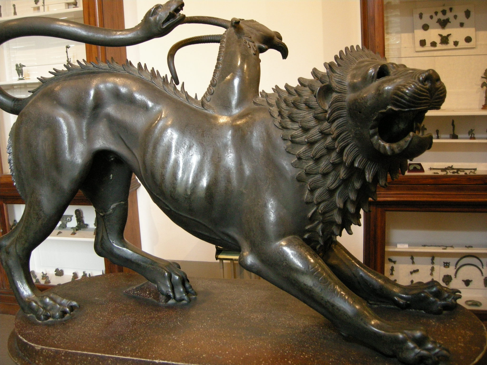 Etruscan bronze statue depicting the legendary monster. It was originally part of a group with Bellerophon and Pegasus. On the right leg is engraved the dedicatory inscription to Tinia.